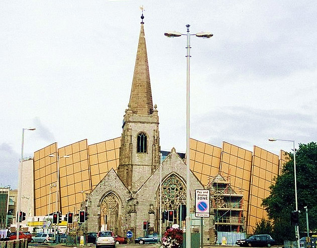 Drake Circus shopping centre behind the ruined Charles Church, Plymouth, England.